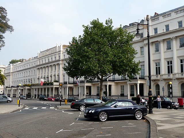 South-east terrace of Belgrave Square. The south-east terrace was built some time between 1826 and 1837. Each of Belgrave Square's four terraces was designed by George Basevi, and its three corner mansions, an unusual device, were designed by separate architects. Each terrace has emphases at its ends and in the middle, making it resemble the facade of a palace. Grade I listed. It is a very grand square, covering some ten acres, lent a coherence by the terraces (although they are subtly different) and the landlord's continuing restrictions on decoration (any colour you like as long as it's cream). The generally greater embellishment (e.g. heavier cornices) is typical of the age, as late Georgian transmuted into Italianate. Comparison with a mid-Georgian square such as Bedford Square is instructive 562542. Much of Belgravia was developed in the 1820s, having previously been a rural area renowned for its footpads and robbers ("a dreary tract of stunted, dusty, trodden grass, beloved by bull-baiters, badger-drawers, and dog-fighters"). It was, and still is, owned by the Grosvenor family, the Dukes of Westminster, whose main builder was Thomas Cubitt (reputed to have done "more to change the face of London than any other man"). It was unpromising land on which to build because of its clay which retained water and left the area resembling a swamp ("lagoon of the Thames"). The determined Cubitt kept digging until he met gravel, burned the clay to make bricks, and he was away. It soon proved a profitable development, helped in part by George IV's decision to convert nearby Buckingham House into his residence.